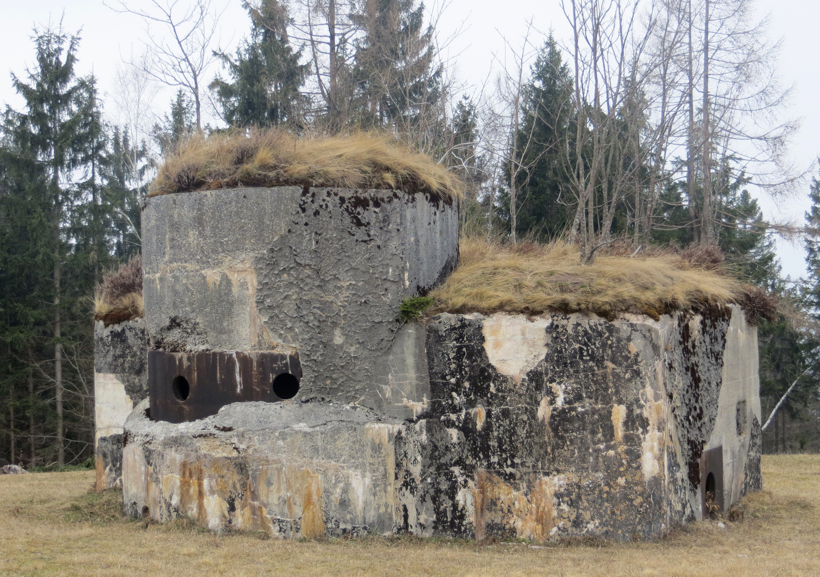 Rupnik line bunker in Žirovski Vrh Svetega Urbana, Municipality of Gorenja Vas–Poljane, Slovenia